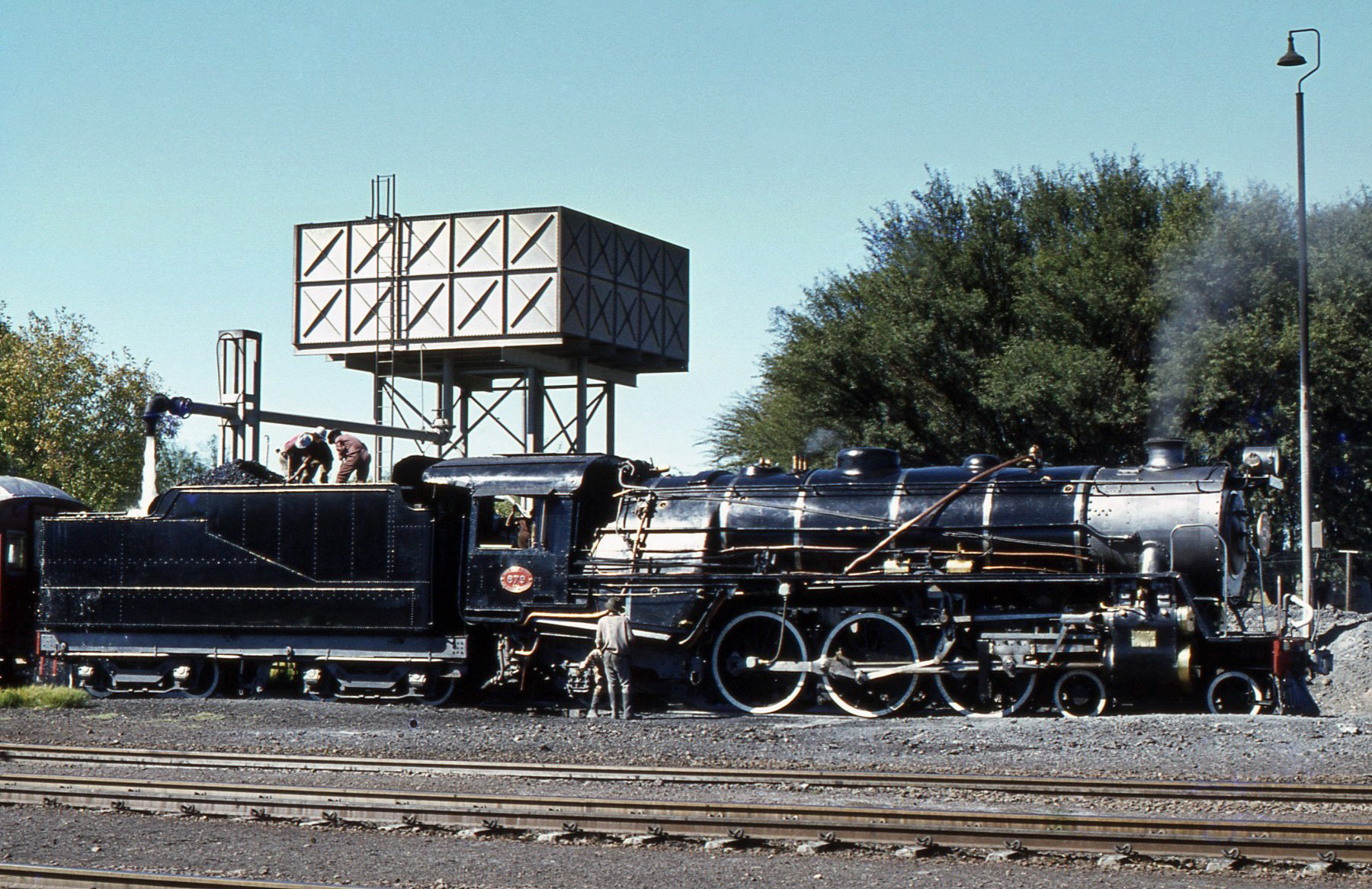 SAR Class 16DA 879 (4-6-2) Henschel Location: Oranjerivier